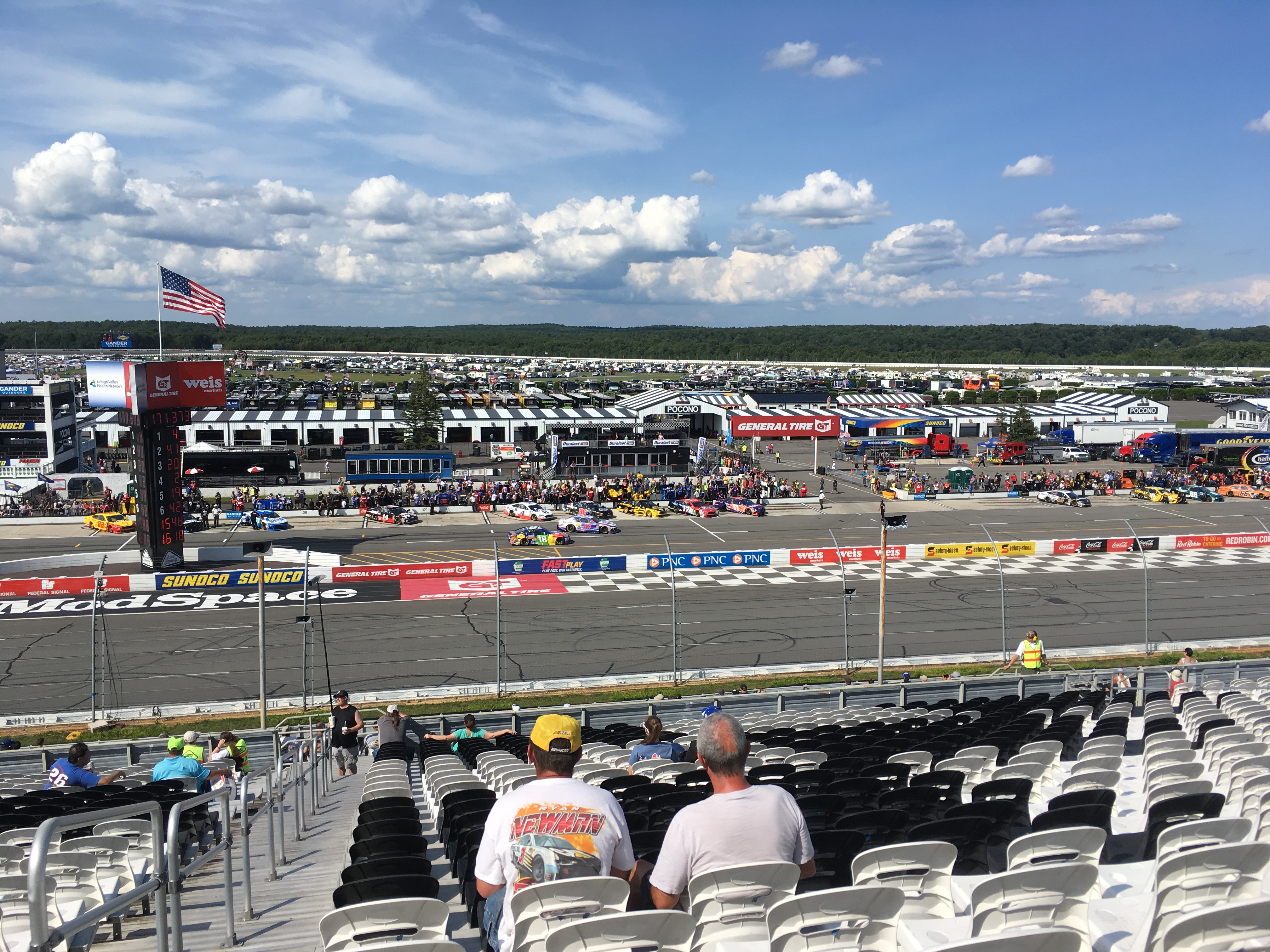 Qualifying for the 2018 Gander Outdoors 400 at Pocono Raceway viewed from the frontstretch. A.J. Allmendinger (#47) and Kyle Busch (#18) drive down pit road.